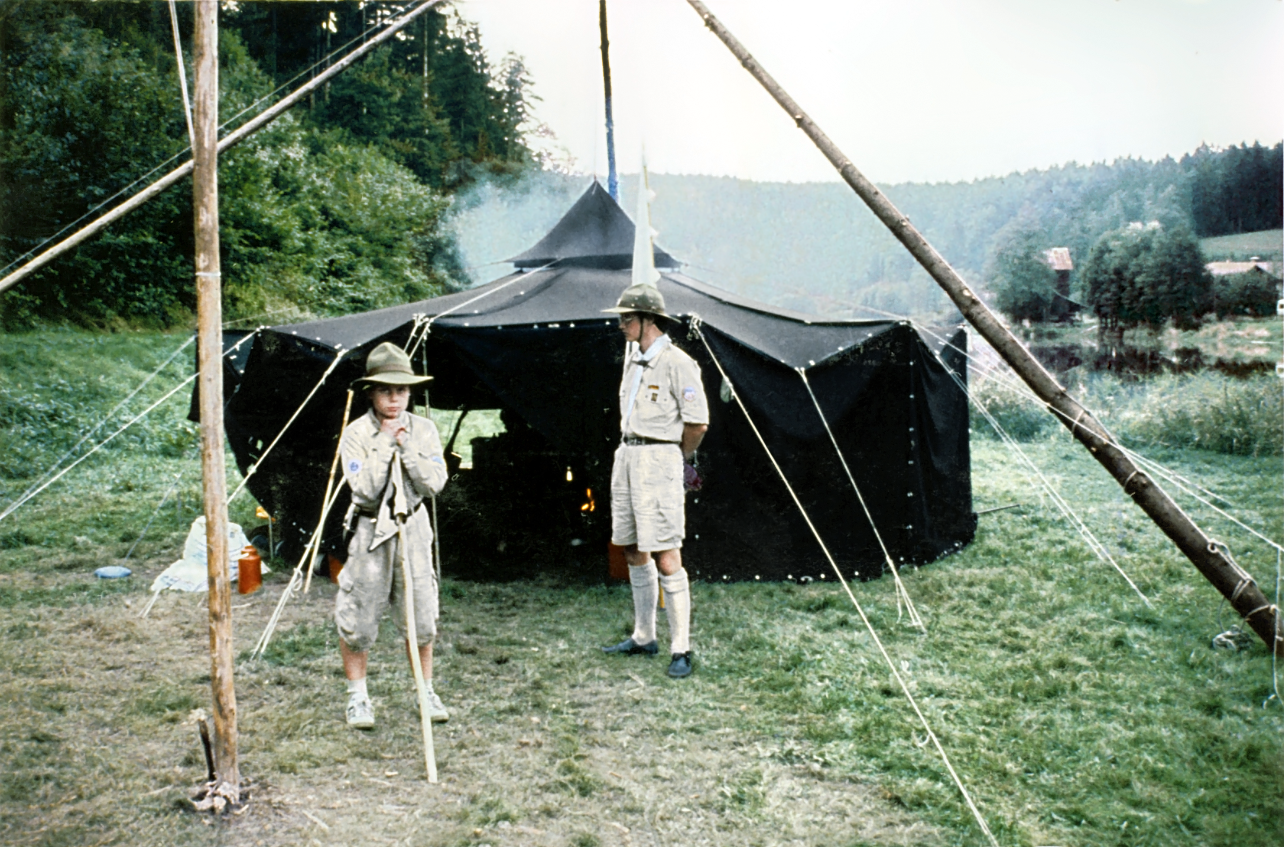 Summer camp of the DPSG Scouts of the Group "Egypt-Straßlach" north of Beucherling on the small river Regen, Bavaria, Germany, 1987. Shortly before a Scout promise ceremony.